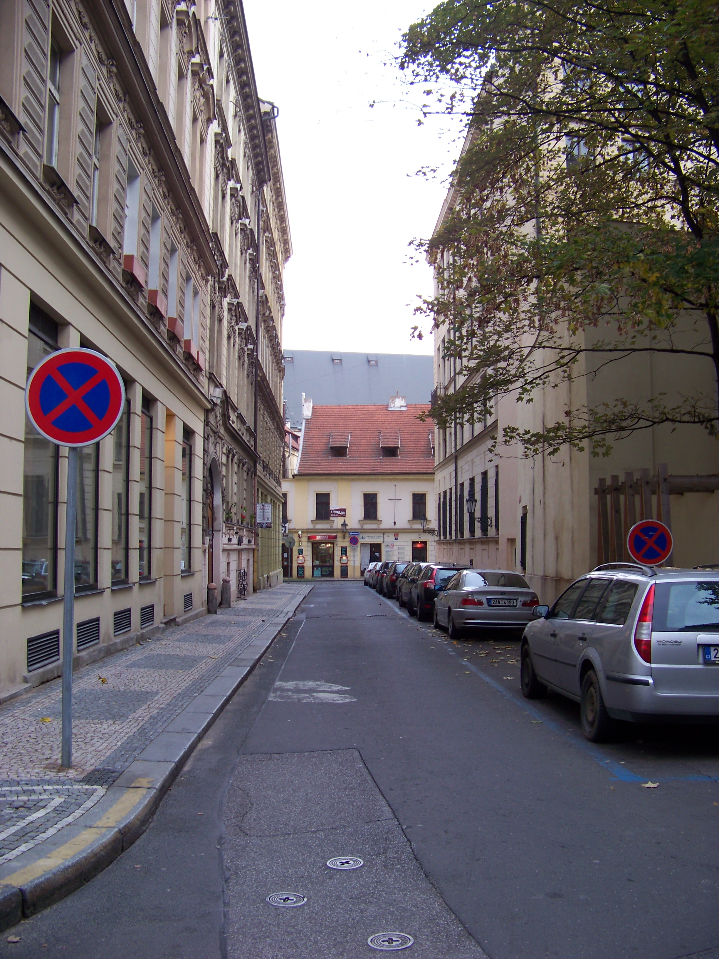 Prague-Old Town. U Dobřenských street. - OpenStreetMap (Info)